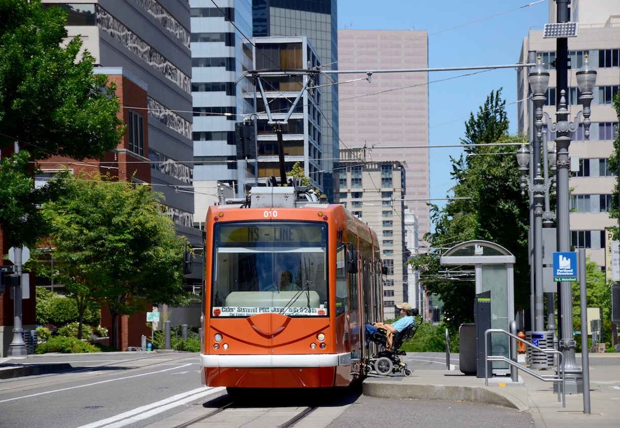 Car 010 of the Portland Streetcar system at the 5th & Montgomery stop (on S.W. 5th Ave. between Mill St. and Montgomery St.), as a rider in a wheelchair boards, rolling across the doorway bridge plate in the car's low-floor section. Car 010 is an Inekon 12-Trio, built in 2006.